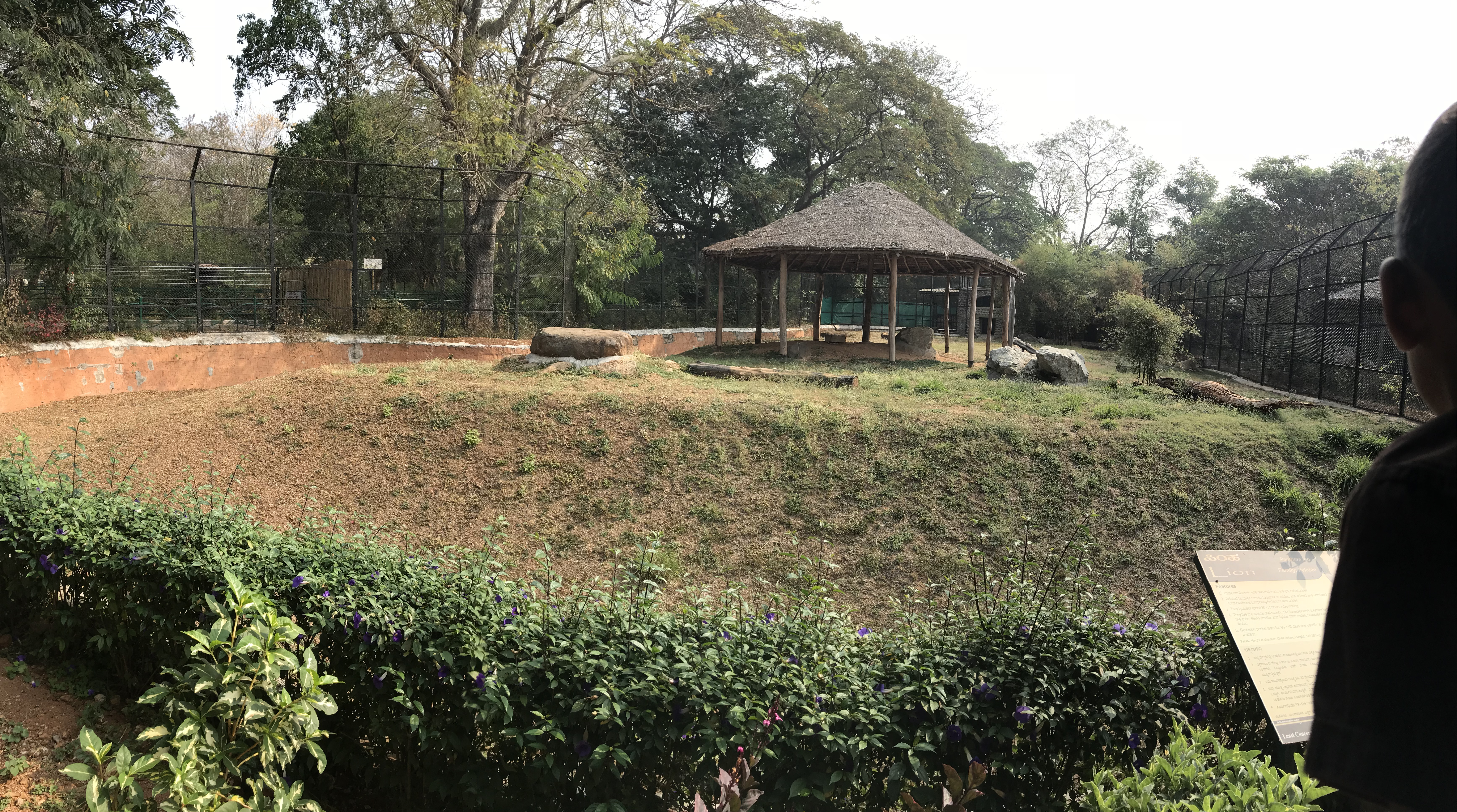 Immersiom Exhibit in Mysuru Zoo